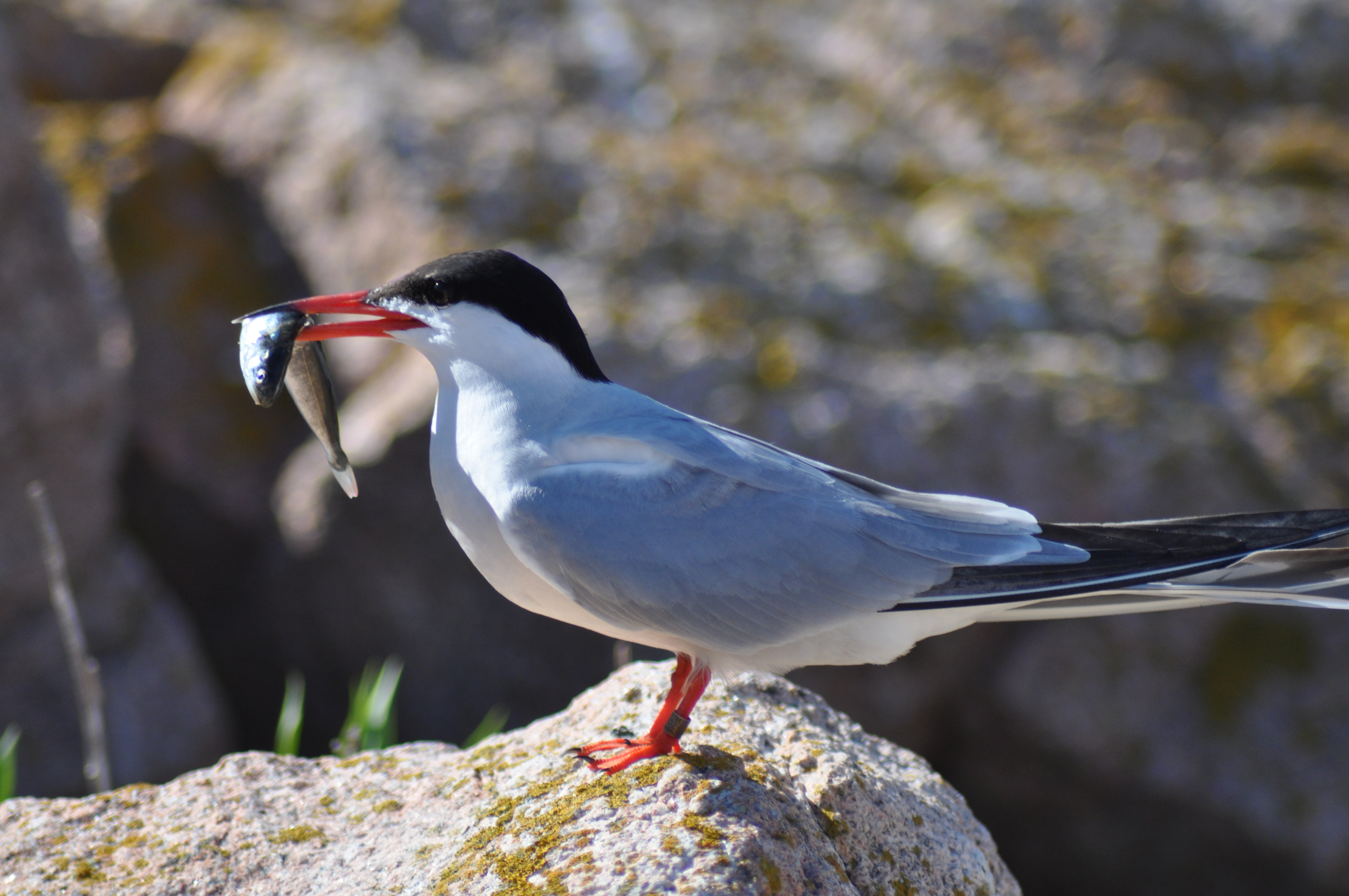 Petit Manan Island, Maine Coastal Islands NWR. Summer with the Seabirds blog: Credit: Amanda Boyd/USFWS